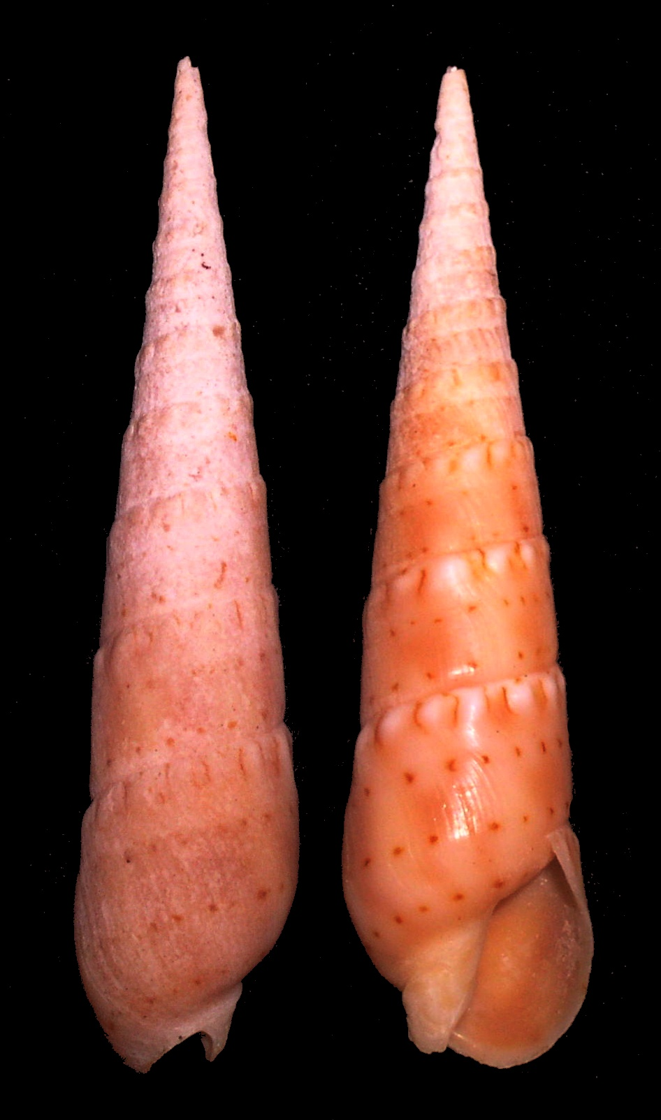 shell of Oxymeris crenulata (synonym : Acus crenulata, Terebra crenulata